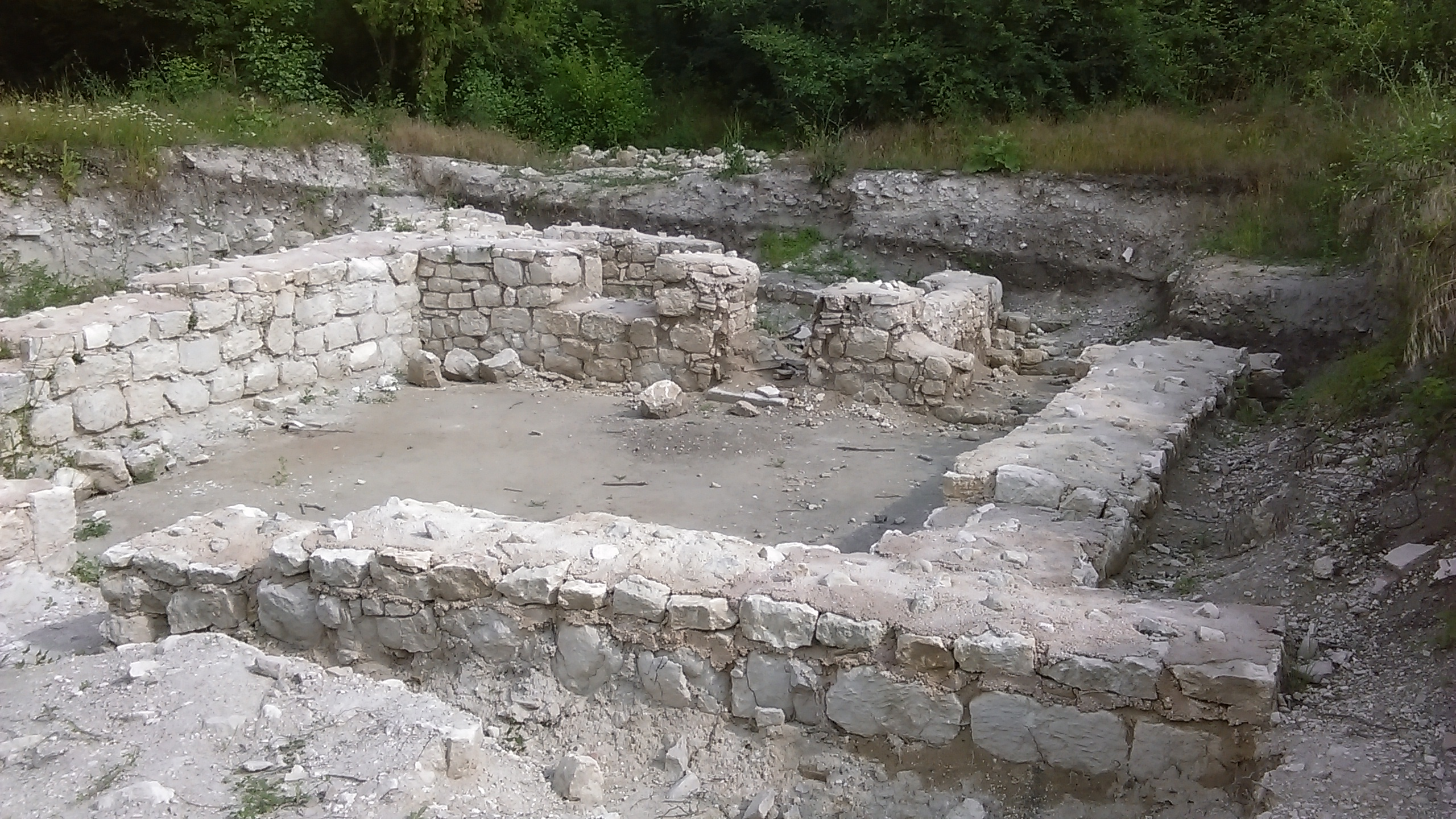 Early christian basilica ruins near Varna